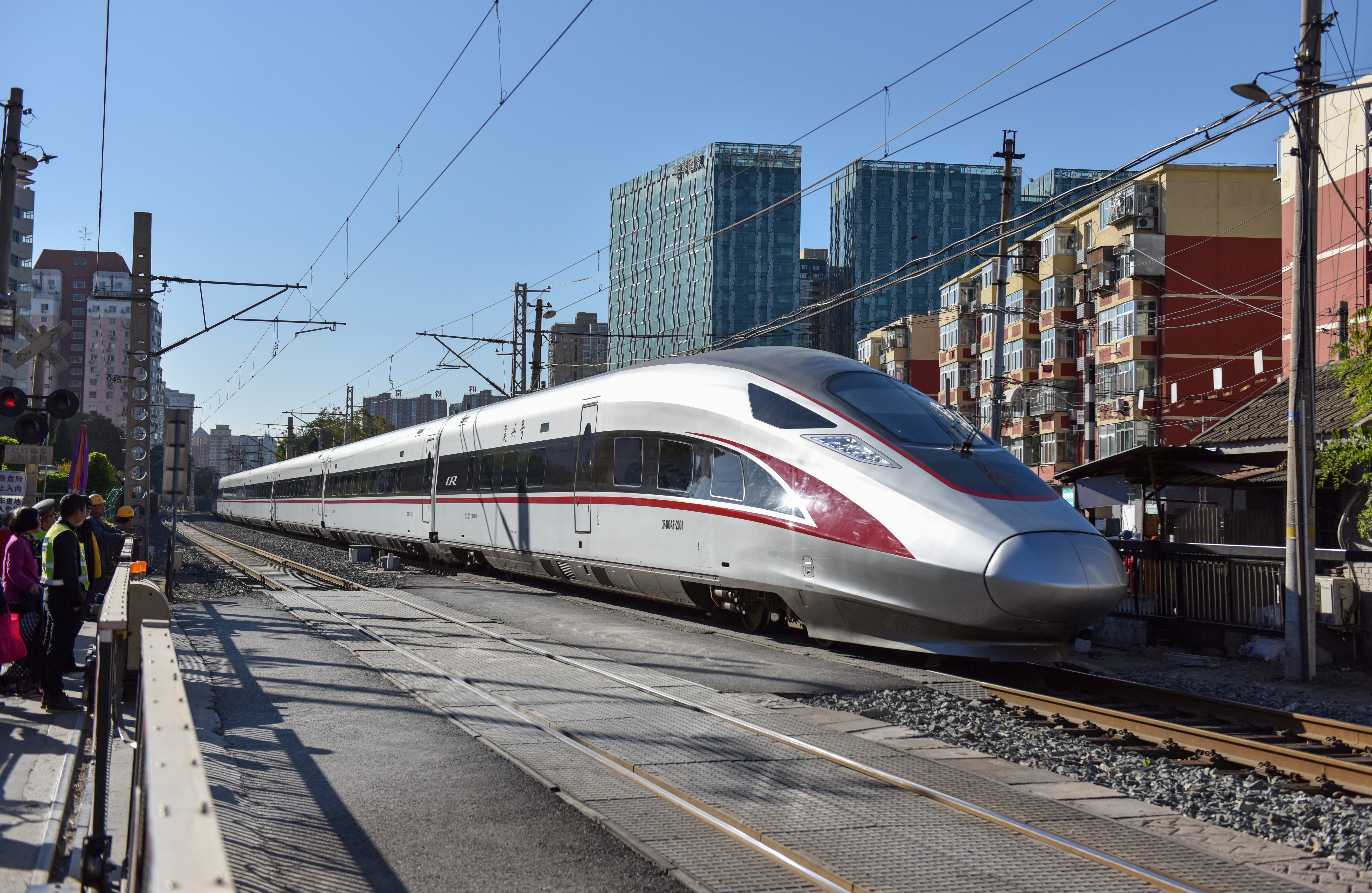 But the only disturbing thing is shadow.